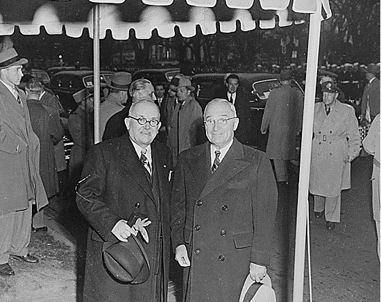 Vincent Auriol, President of France, with Harry S. Truman, President of the United States